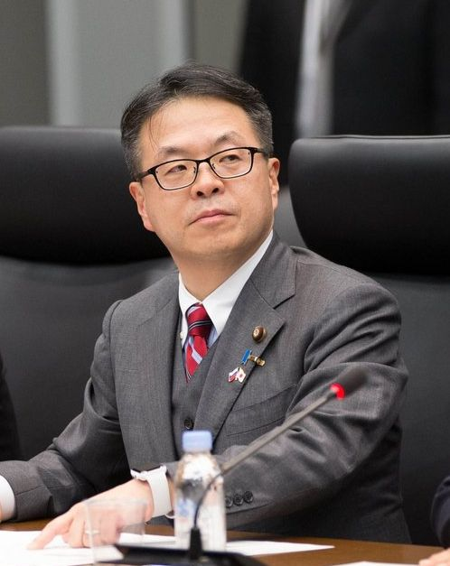 Hiroshige Sekō - Japanese politician